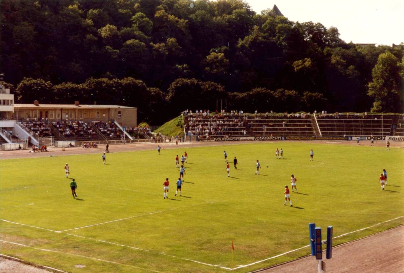 GDR League match BSG Wismut Gera vs BSG Motor Suhl, Friendship Stadium (Stadion der Freundschaft), Gera, August 1989